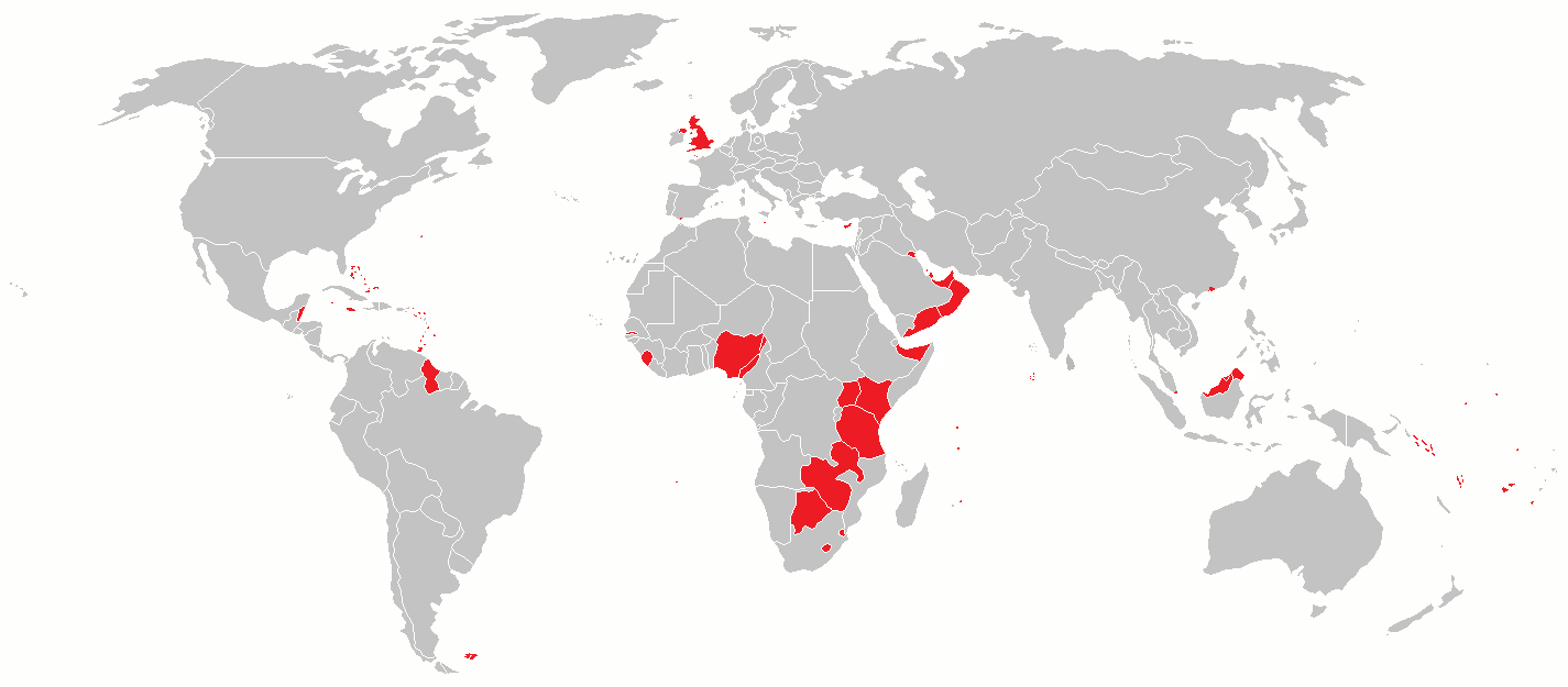 A map of the British Empire as it was in 1959, before the period of rapid decolonisation in the 1960s.